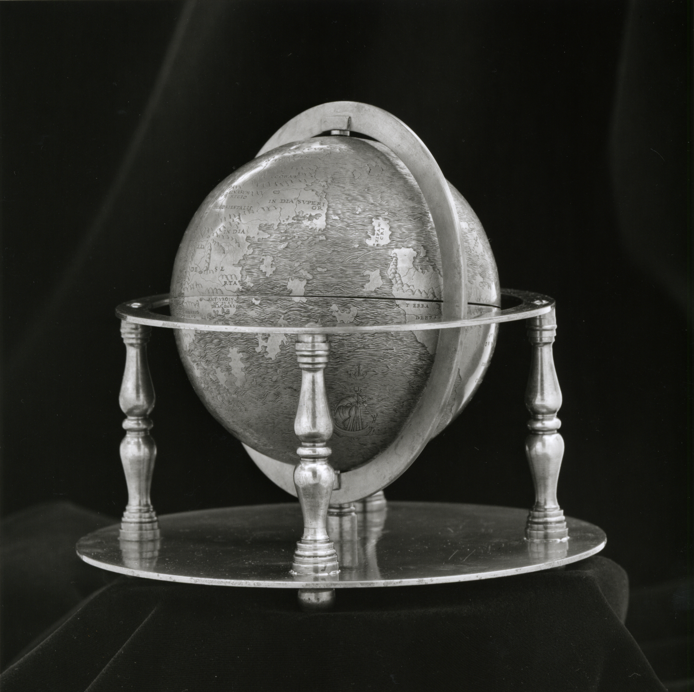 The Hunt–Lenox Globe, a copper globe created around 1510, and held by the Rare Book Division of New York Public Library. General view.